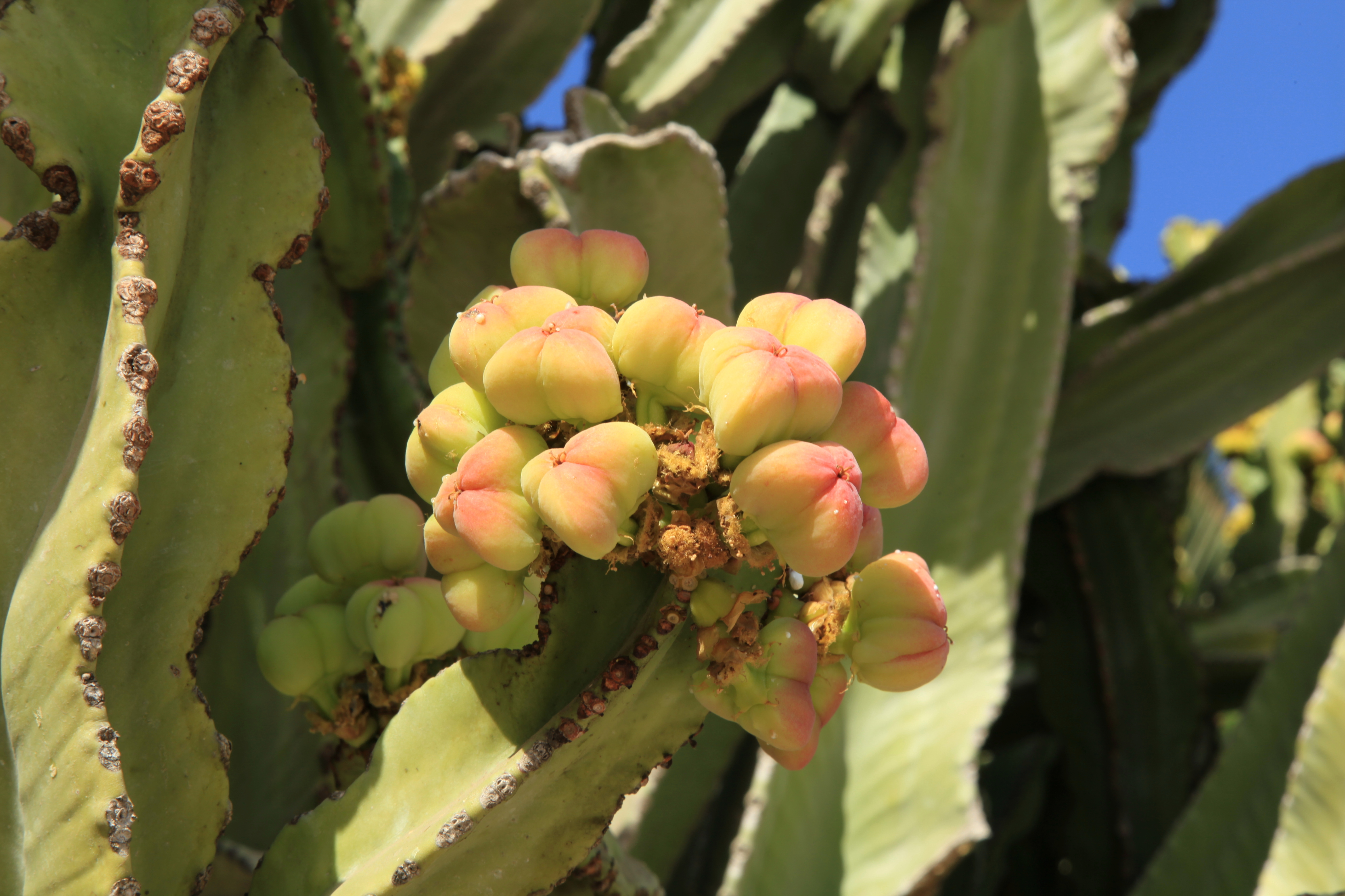 Euphorbia abyssinica grown at Plaza Pescadores in Morro Jable, Pájara, Fuerteventura, Canary Islands